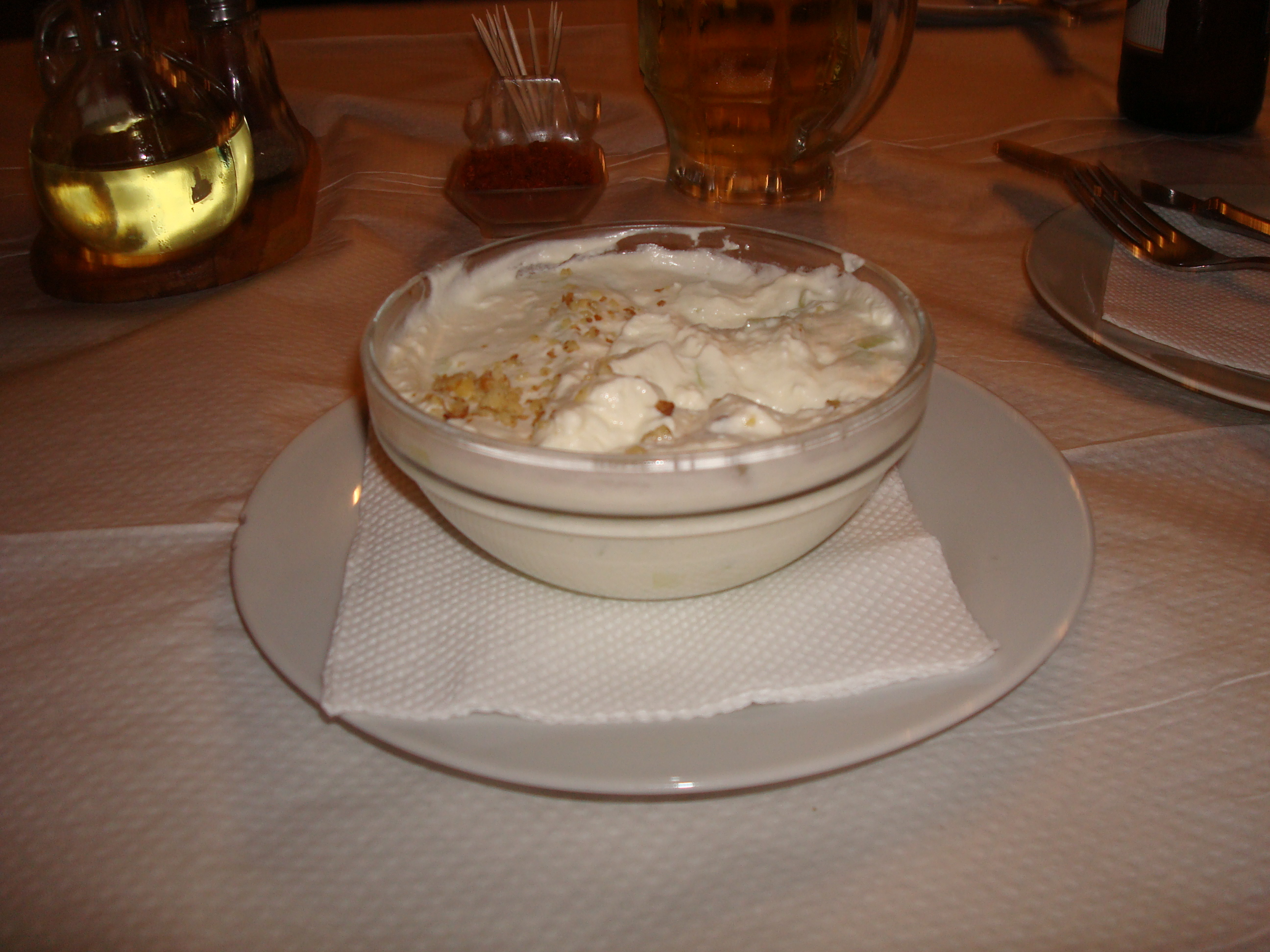 Tarator